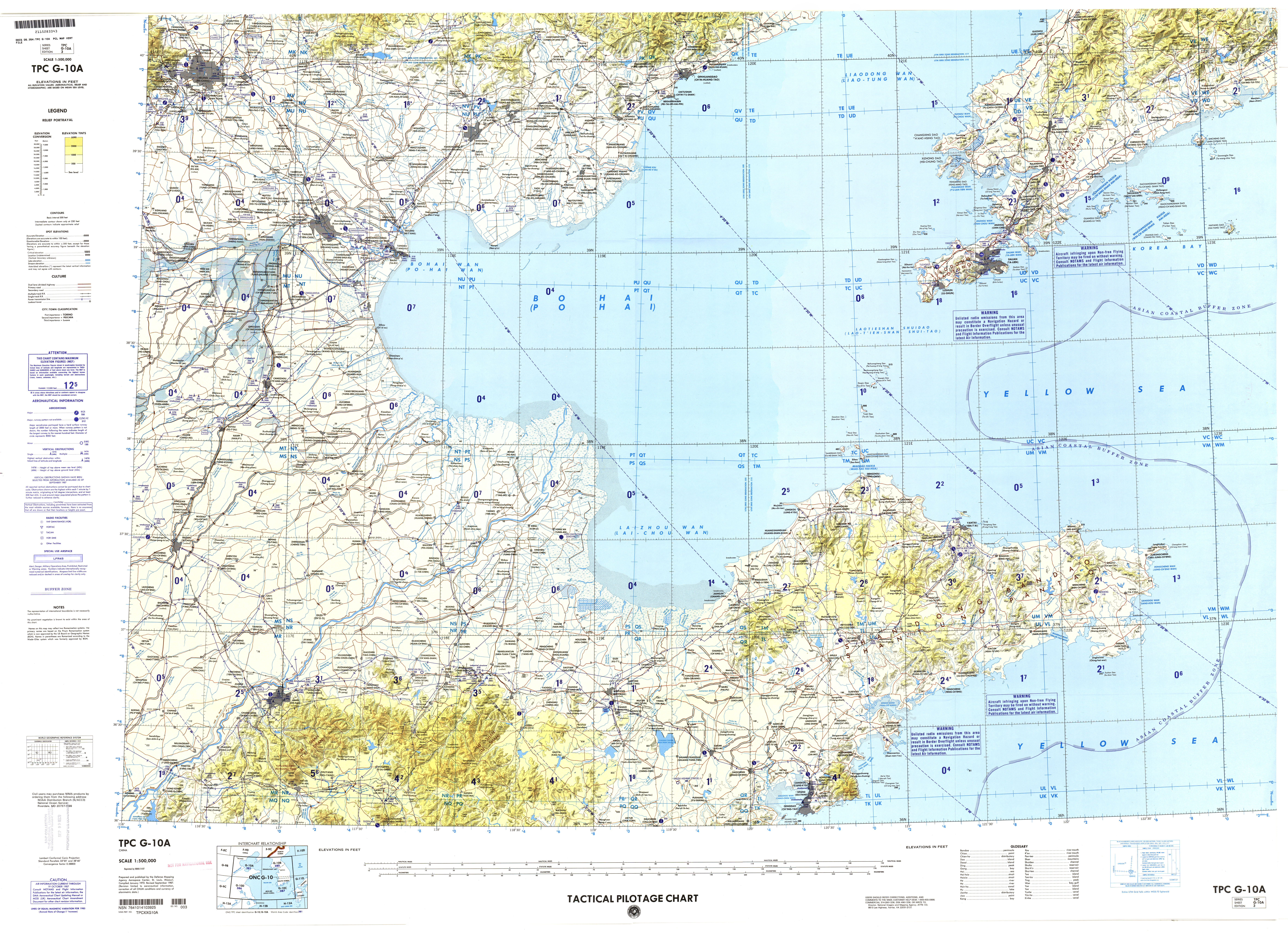 Tactical Pilotage Chart Series - World 1:500,000 Scale